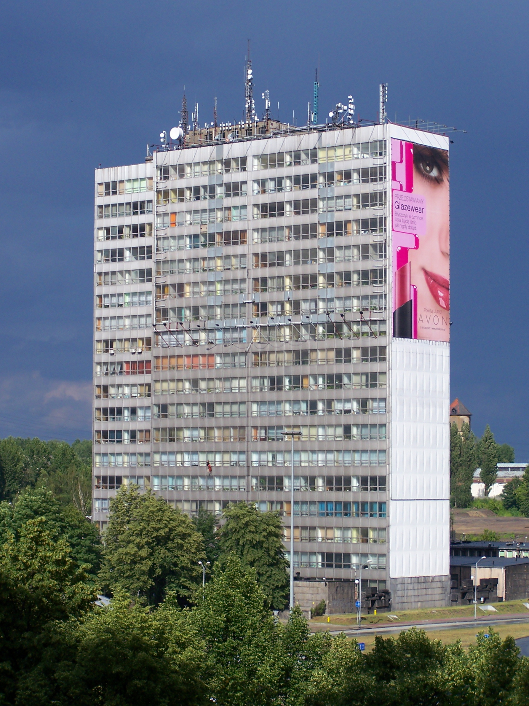 DOKP Skyscraper in Katowice.